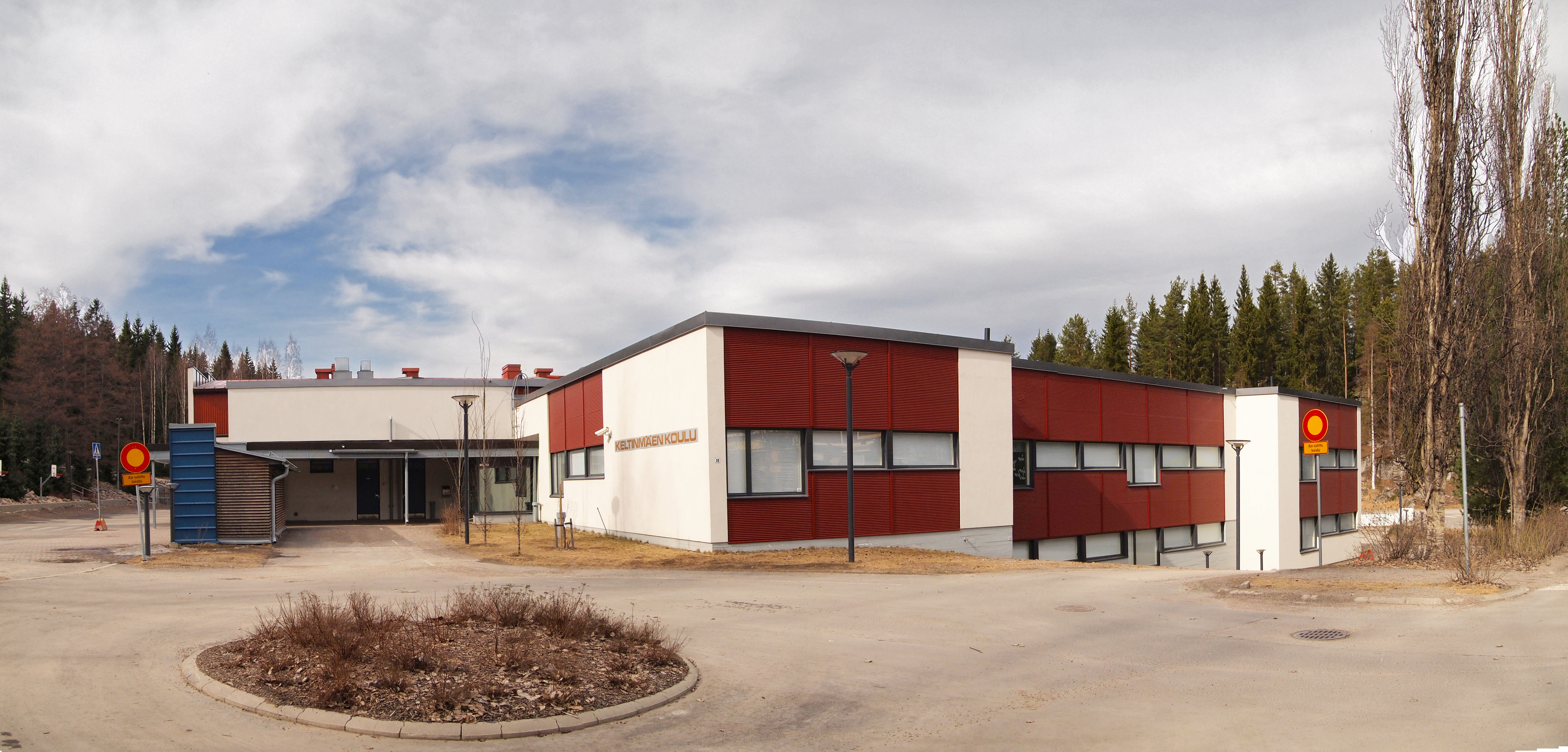 School "Keltinmäen koulu" in Jyväskylä. This photograph was taken with an Olympus E-PL1